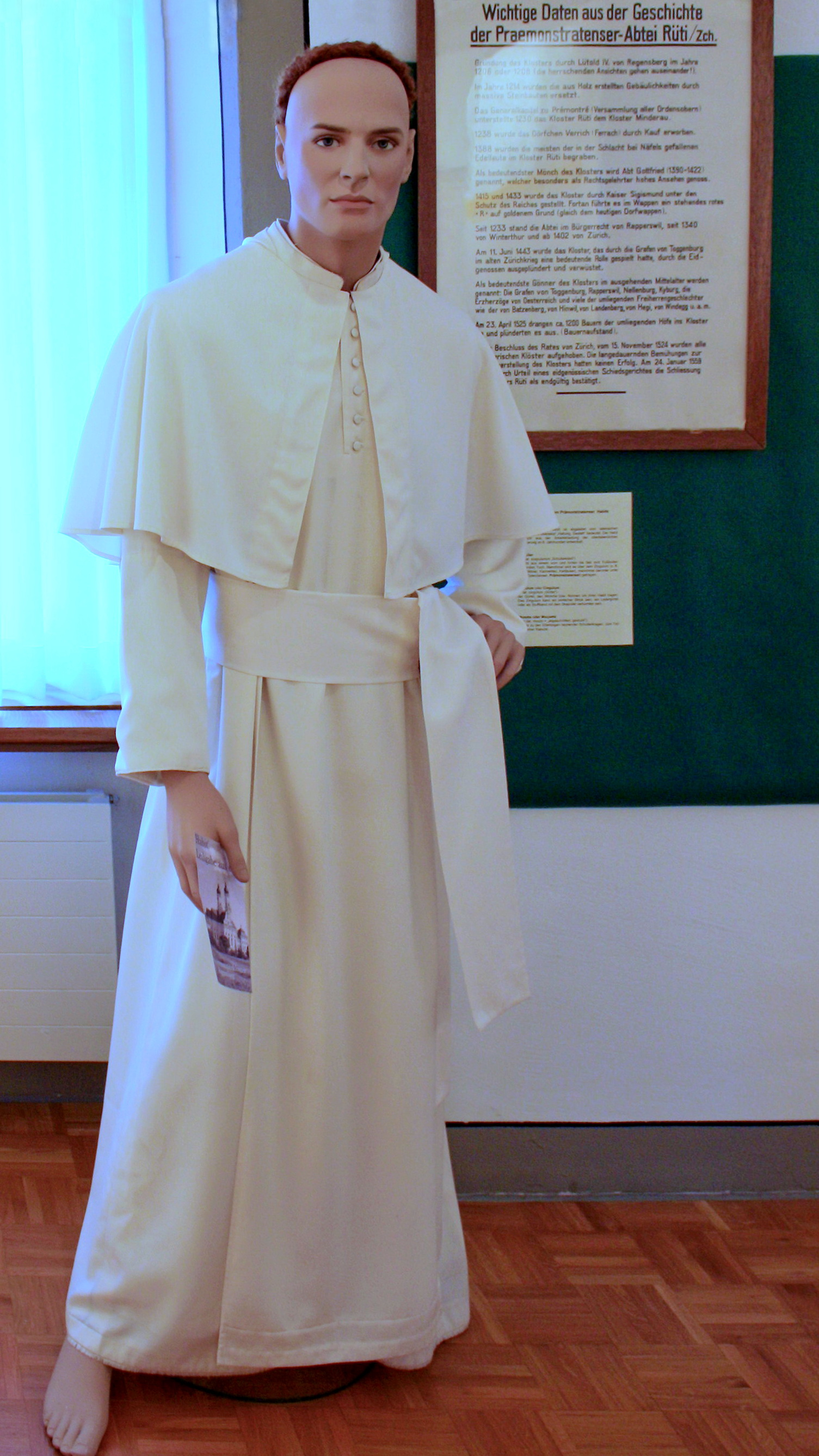 Rüti (ZH) : Habit of o munk of the former Premonstratensian Abbey, Ortsmuseum (museum of local history) in the Amthaus Rüti (Bailiff's house).